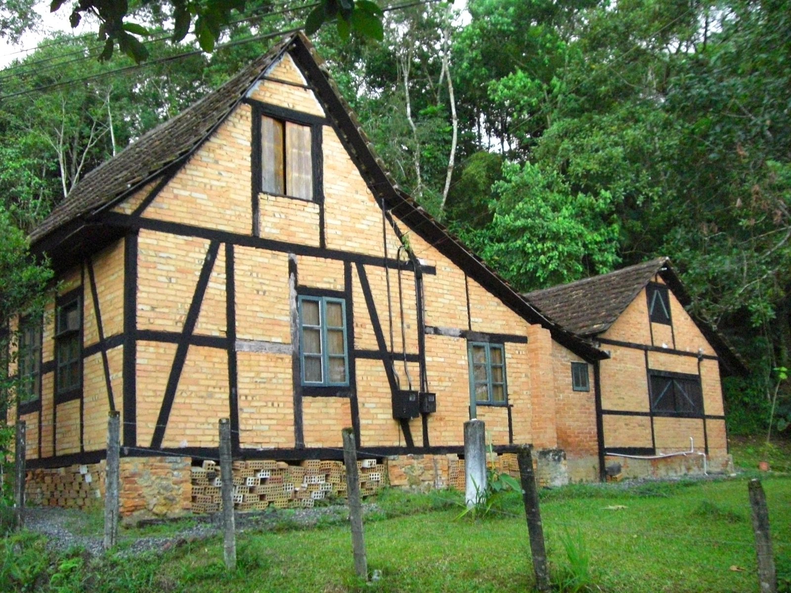 Typical half-timbered house in Joinville